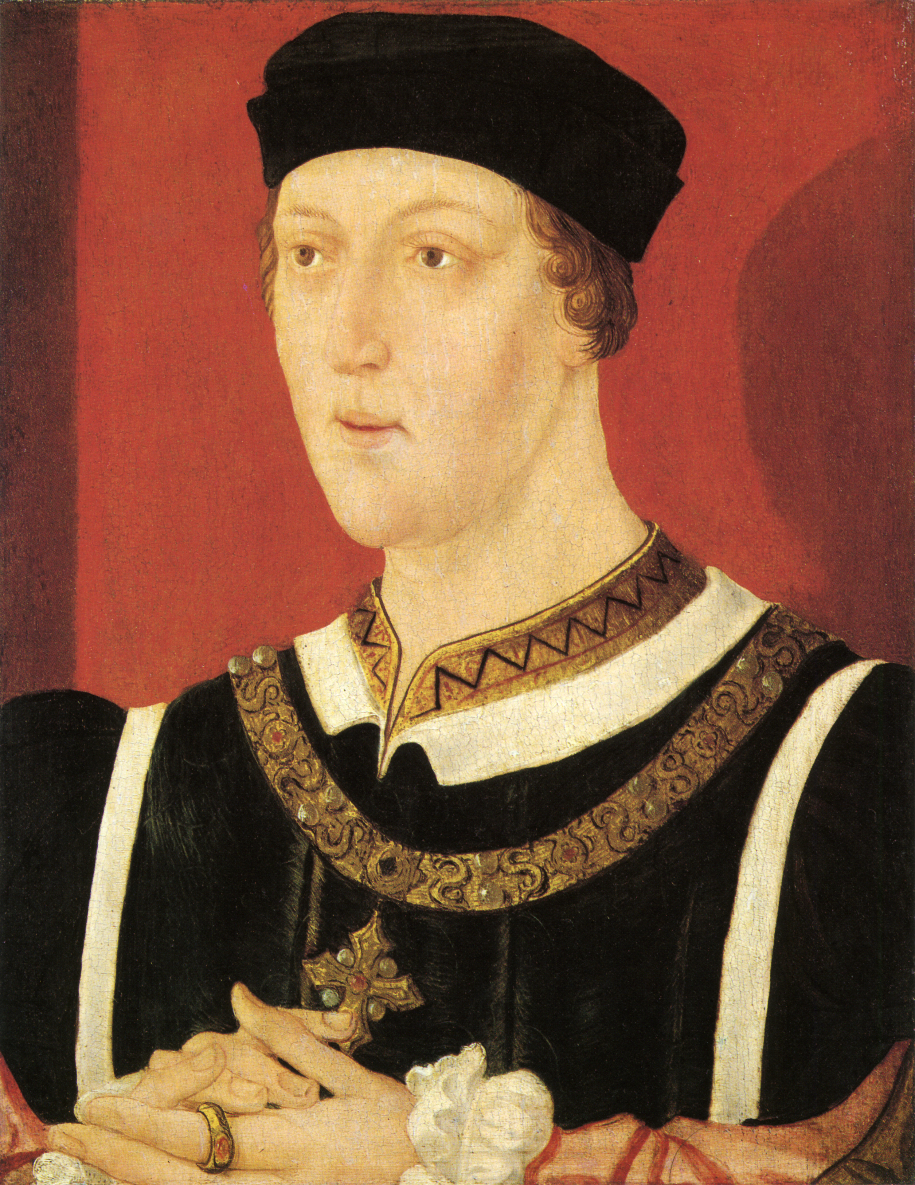 This image is a JPEG version of the original PNG image at File: King Henry VI.png. Generally, this JPEG version should be used when displaying the file from Commons, in order to reduce the file size of thumbnail images. However, any edits to the image should be based on the original PNG version in order to prevent generation loss, and both versions should be updated. Do not make edits based on this version. See here for more information. King Henry VI, by unknown artist, circa 1540. National Portrait Gallery: NPG 2457 While Commons policy accepts the use of this media, one or more third parties have made copyright claims against Wikimedia Commons in relation to the work from which this is sourced or a purely mechanical reproduction thereof. This may be due to recognition of the "sweat of the brow" doctrine, allowing works to be eligible for protection through skill and labour, and not purely by originality as is the case in the United States (where this website is hosted). These claims may or may not be valid in all jurisdictions. As such, use of this image in the jurisdiction of the claimant or other countries may be regarded as copyright infringement. Please see Commons:When to use the PD-Art tag for more information.See User:Dcoetzee/NPG legal threat for original threat and National Portrait Gallery and Wikimedia Foundation copyright dispute for more information. This tag does not indicate the copyright status of the attached work. A normal copyright tag is still required. See Commons:Licensing.